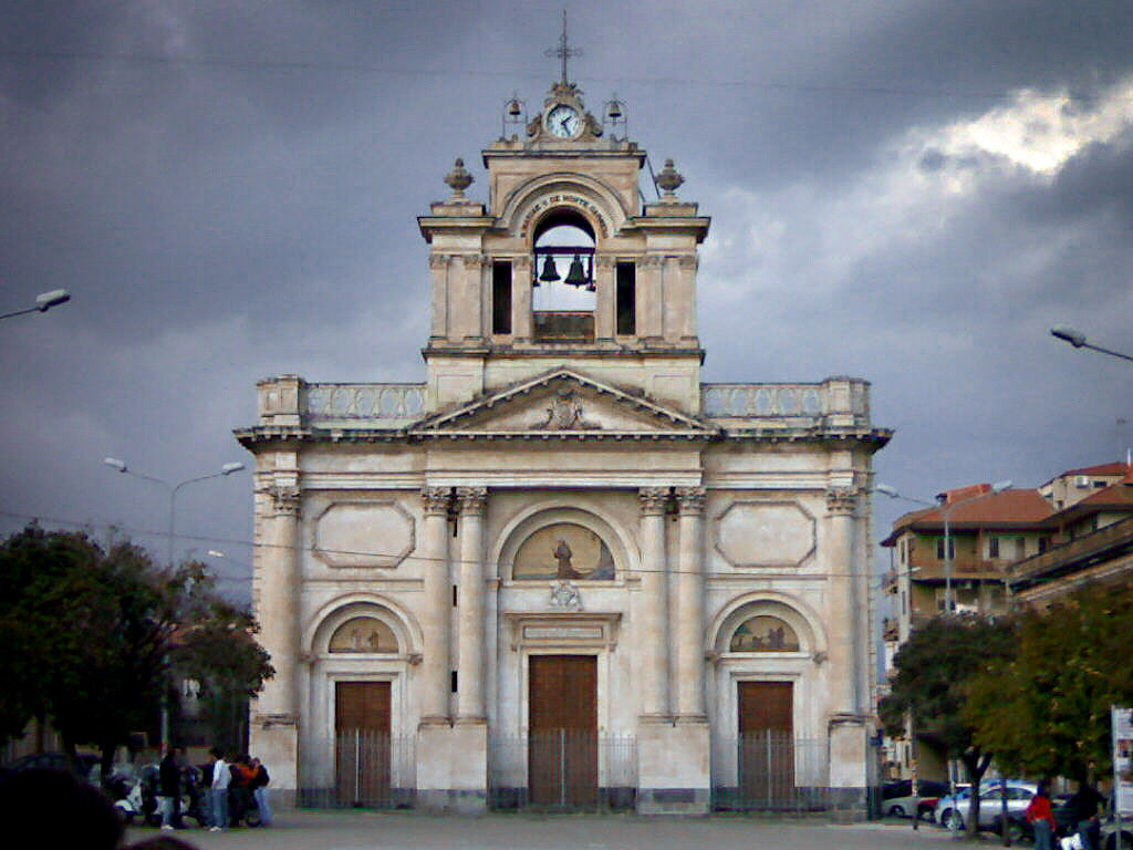 Carmine Church, Giarre, Sicily, Italy; 2007